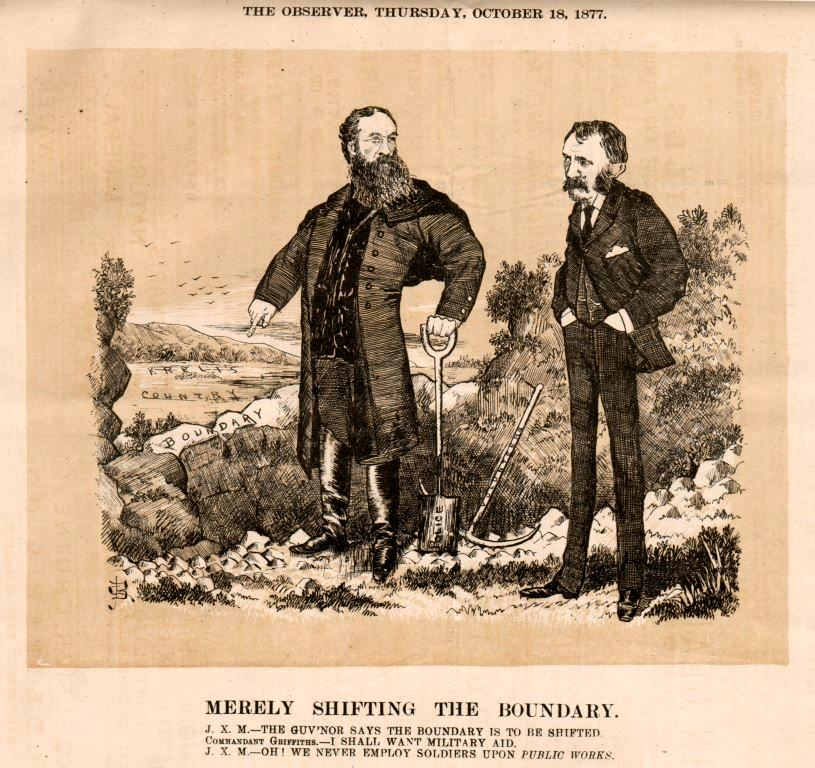 Cartoon in the Port Elizabeth Observer newspaper 1877 attacking the Cape Town based government of Molteno for its reluctance to embark on imperial expansion. John X Merriman the Commissioner for Public Works is shown reluctantly obeying the Governor Bartle Frere's orders to expand the frontier into the Xhosa Kingdom of Kreli. Commandant Griffiths holds the tools of Police and Volunteers but asks for military aid which Merriman declines. Artist is CJ Barber